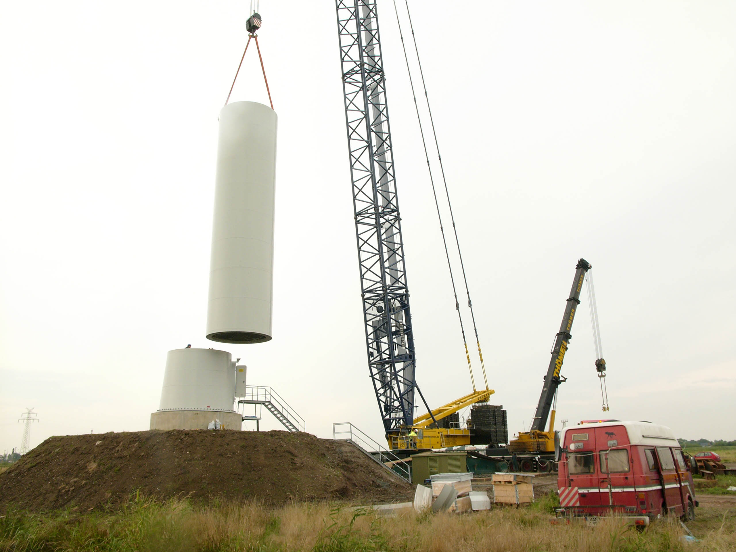 Setup of a 3 MW wind turbine in the "Windpark Bremerhaven".